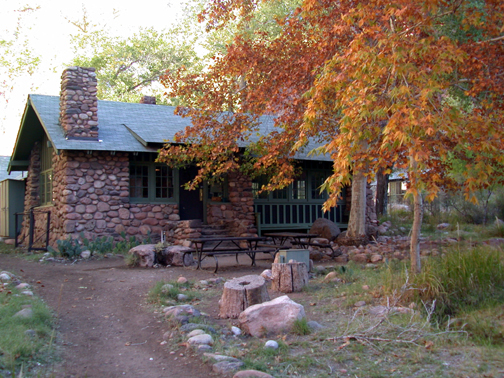 This is the main building at Phantom Ranch. It's where they serve meals and sell t-shirts and sundries.